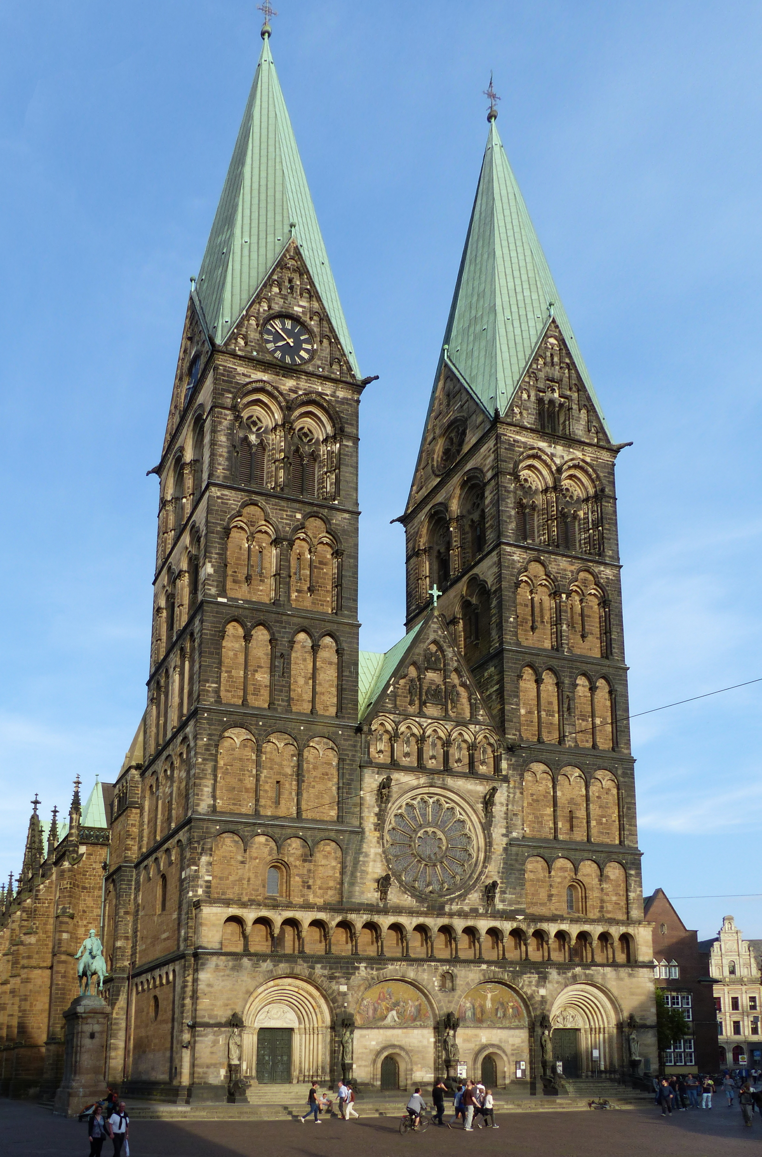 Bremen Cathedral from the northeastern entrance of the Old Town Hall